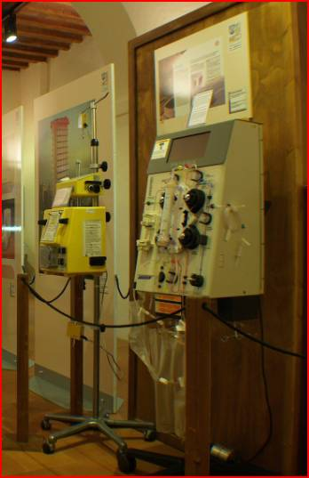 machine for plasmapheresis